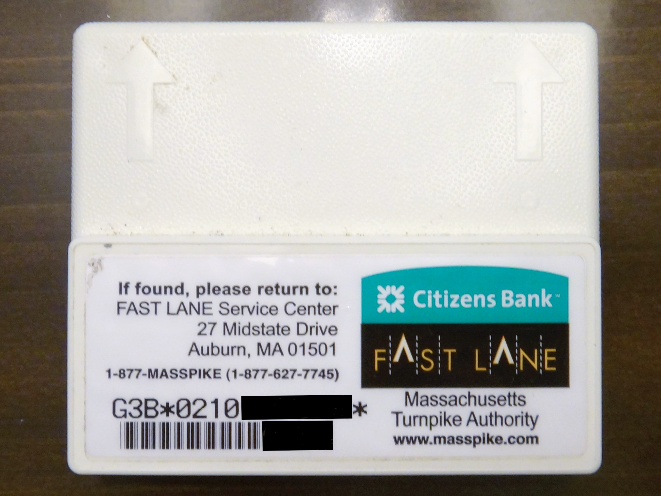 A Massachusetts Fast Lane (their former name for E-ZPass) toll transponder made in 2009, 3 years before MassDOT dropped the Fast Lane sponsorship. It is the same transponder as E-ZPass units, just different branding. Some numbers censored for privacy reasons.